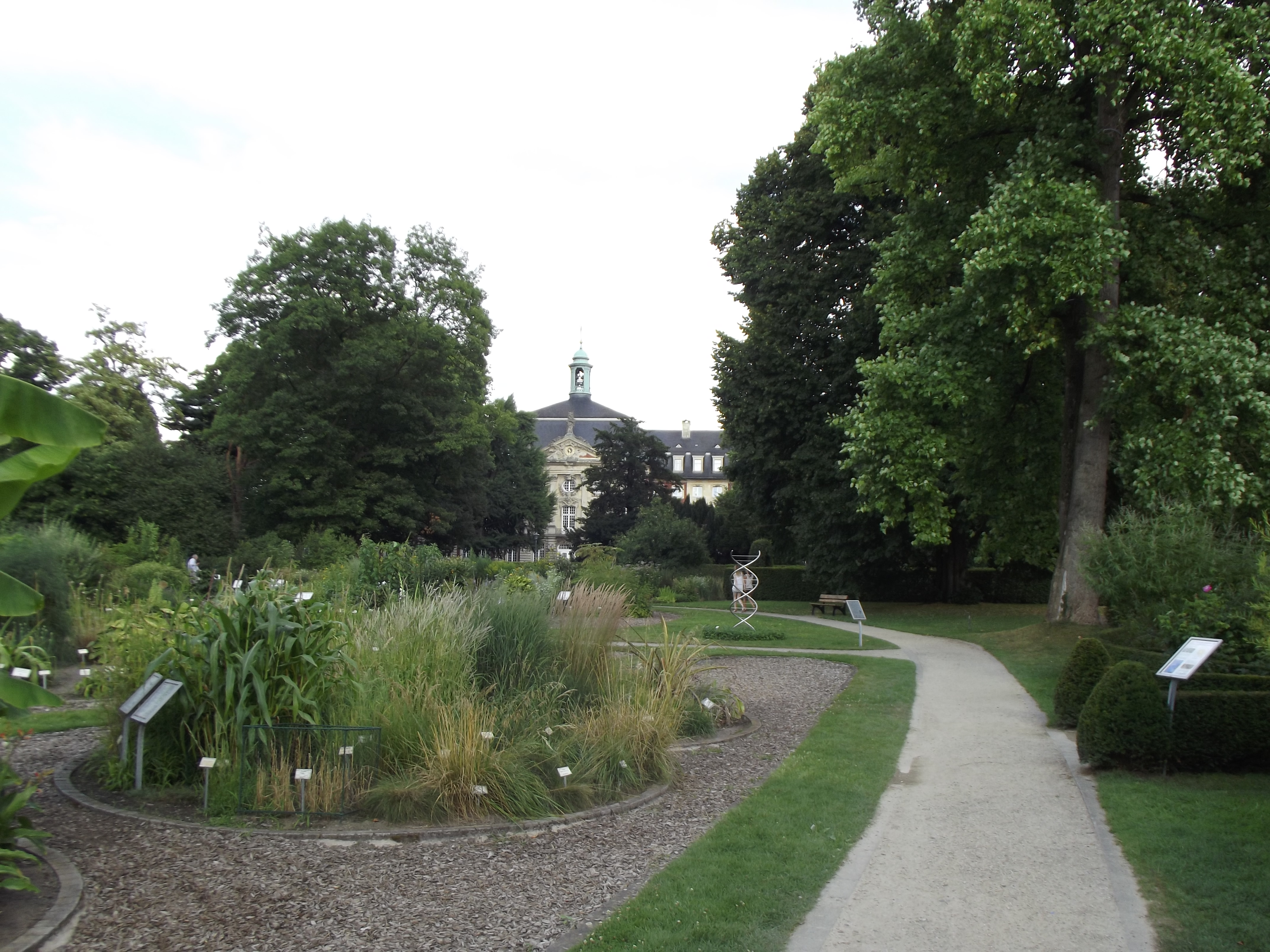 The castle as seen from the garden behind the very castle